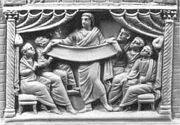 Marcion Displaying His Canon